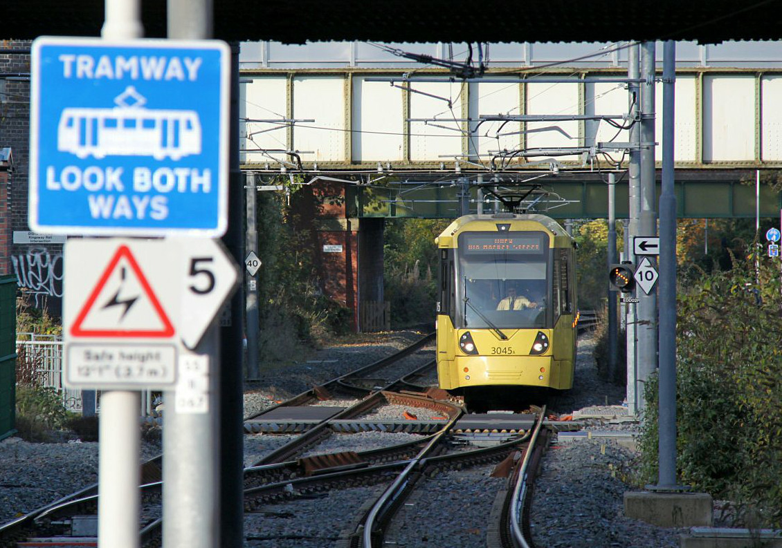 Metrolink tram arriving at East Didsbury. The East Didsbury line of Metrolink largely follows the alignment of the Midland Railways new main line into Manchester, opened in 1880.